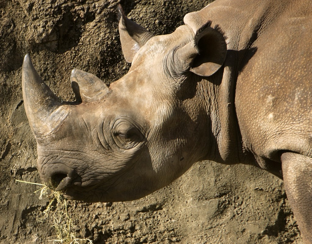 Black Rhino at Taronga zoo, Sydney, Australia